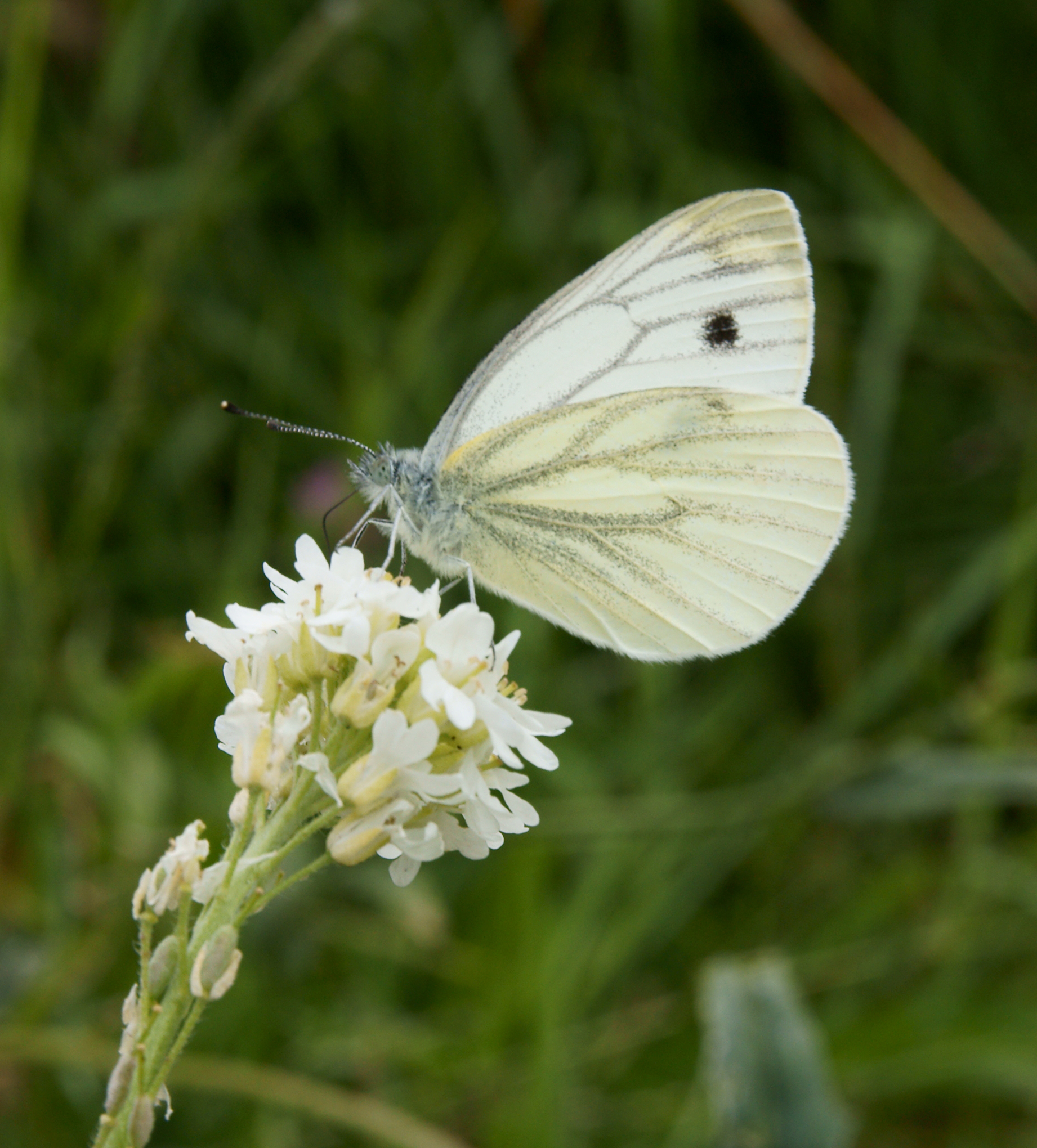 Green-veined White (Pieris napi).